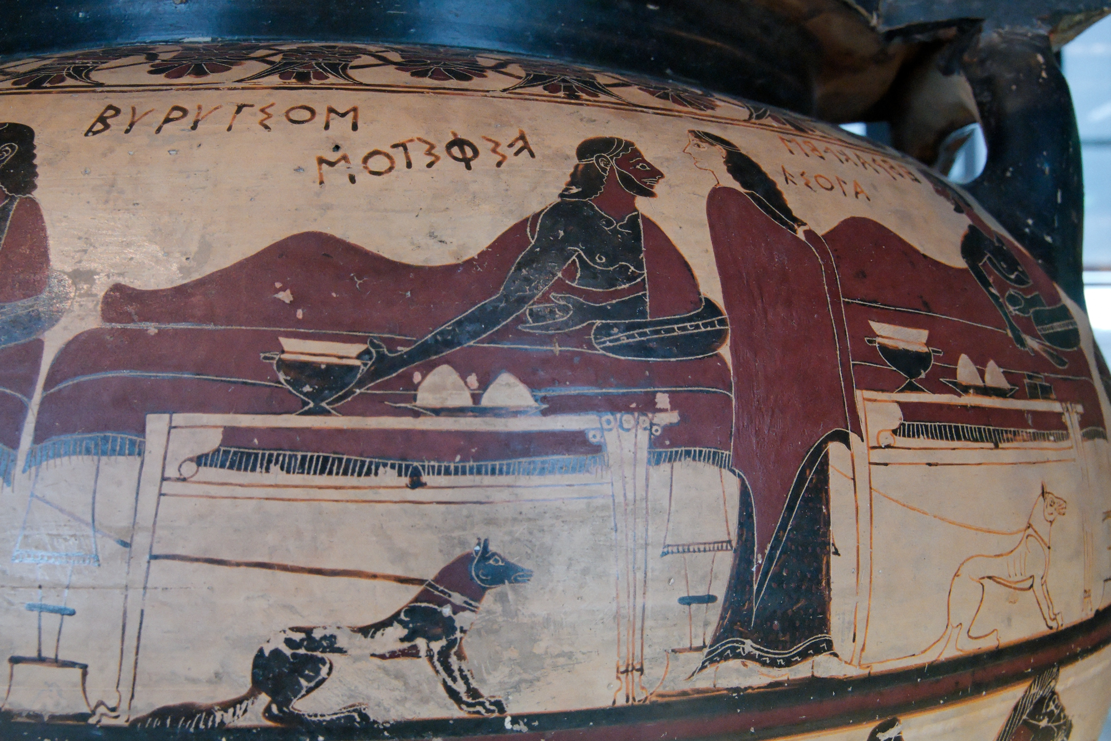 Iole, Iphitos and Herakles at symposium. Upper tier (right-hand side), side A of the so-called Eurytios Krater, a Corinthian column-krater, ca. 600 BC. From Cerveteri.